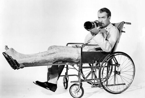 James Stewart in American American mystery thriller film Rear Window (1954). No copyright notice.